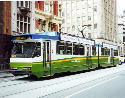 B2 class tram #2078 in the very short lived M,tram (National express)livery.Elizabeth Street 28/8/2001.